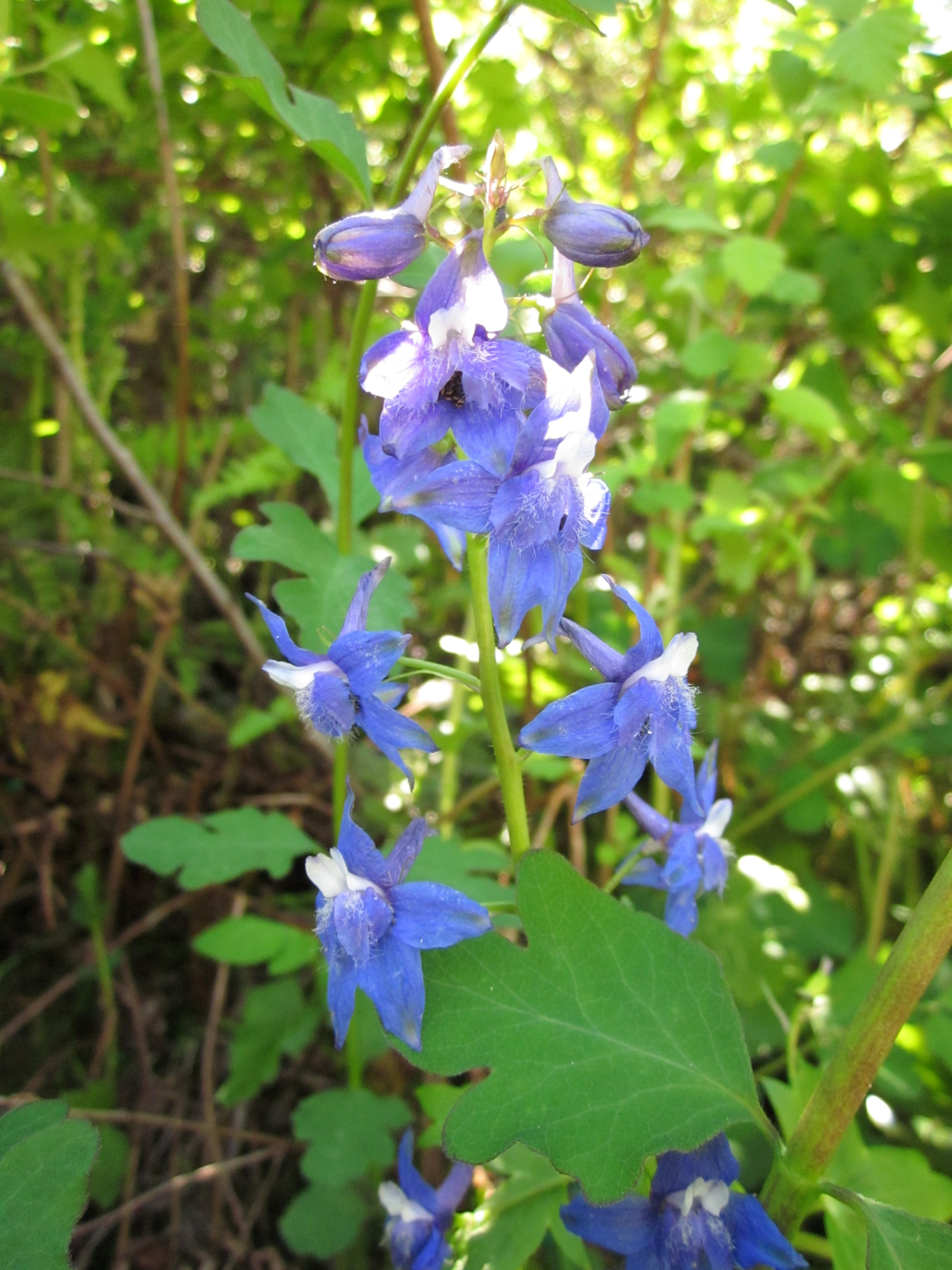 The Service's Partners for Fish and Wildlife Program is working with project partners and private landowners in the northern San Francisco Bay Area to establish several new populations of Baker's larkspur, one of California's most imperiled plant species, known from one remaining occurrence. Location: Marin Municipal Water District lands at Soulajule Reservoir, Marin County. Photo Credit: Kate Symonds/USFWS